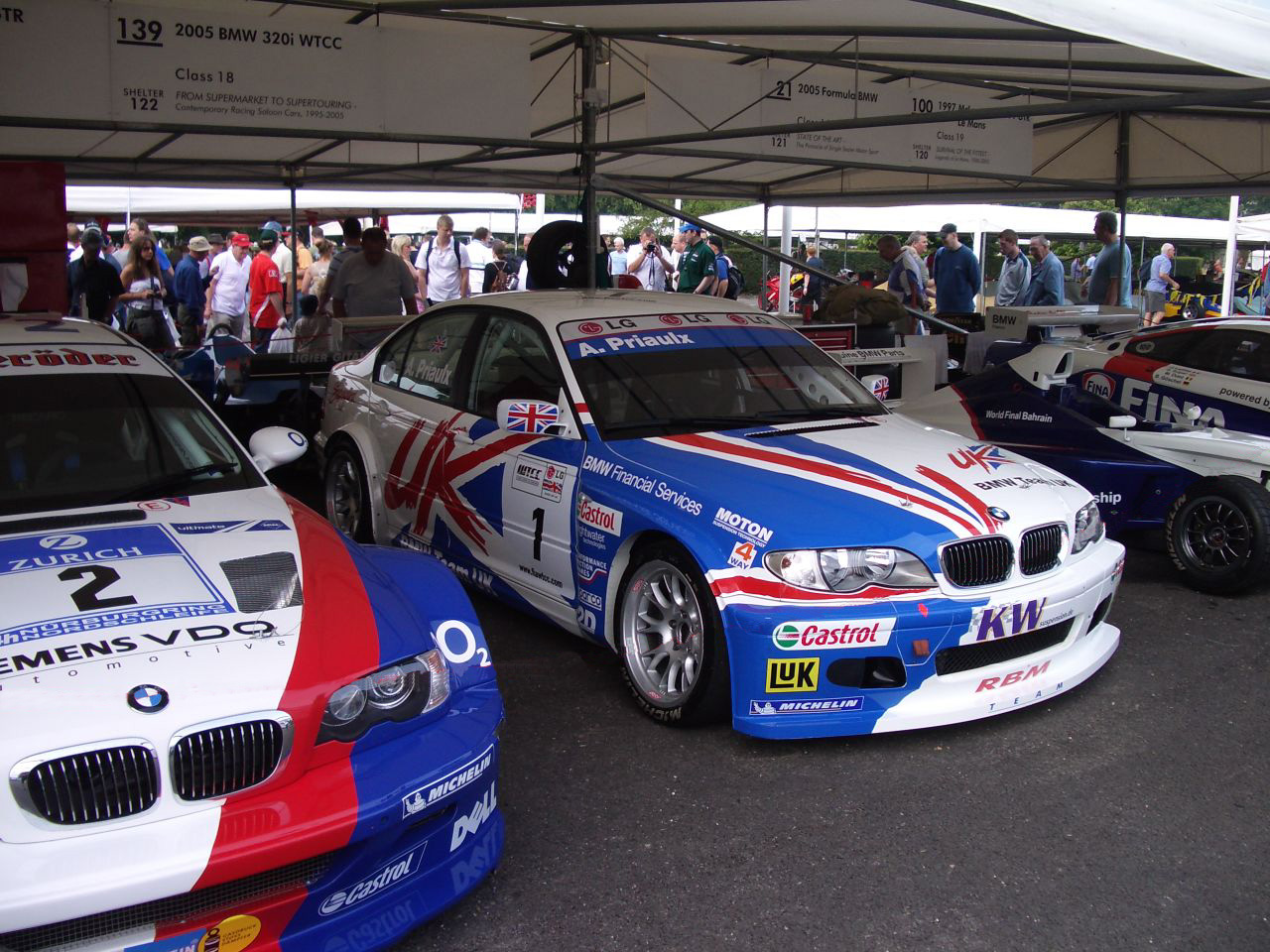 World Touring Car Championship 2005: Andy Priaulx's BMW 320i at the Goodwood Festival of Speed 2005